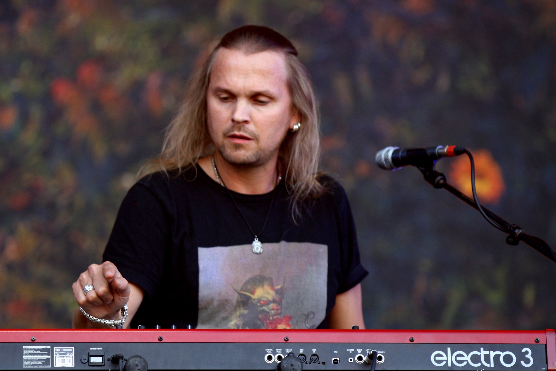 Joakim Svalberg, keyboarder of Opeth, Rock im Park Festival 2014. Festivalsommer This photo was created with the support of donations to Wikimedia Deutschland in the context of the CPB project "Festival Summer".